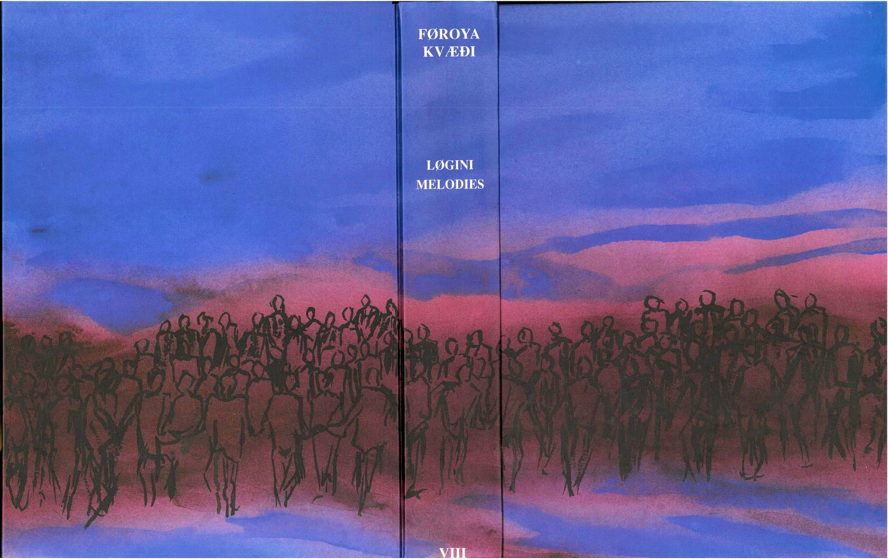 Book cover from Føroya Kvæði Volume VIII, Stiðin and UJDS publishers